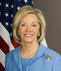 Mary M. Ourisman, U.S. Ambassador to Barbados and the Eastern Caribbean. Source: United States Department of State: Biography of Mary M. Ourisman. Ourisman, Mary M